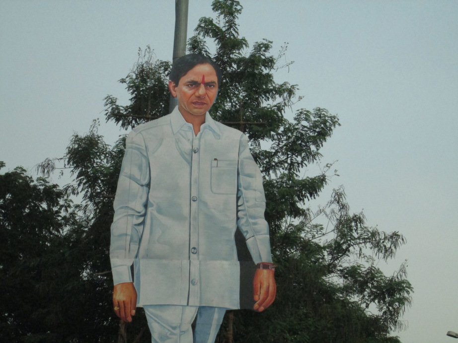 Cutout of K Chandrashekhar Rao, first Chief Minister of Telangana